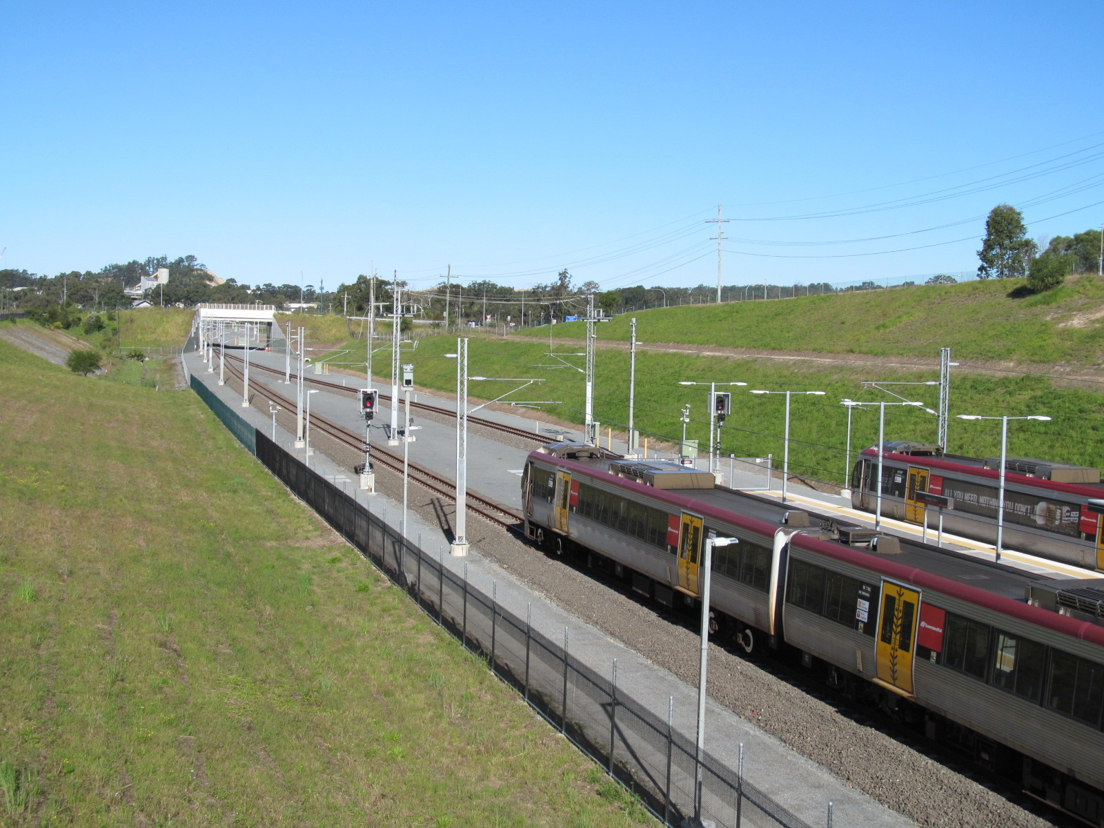 Looking south from Varsity Lakes, which as at 2013 is the southern terminus of the Gold Coast railway line.